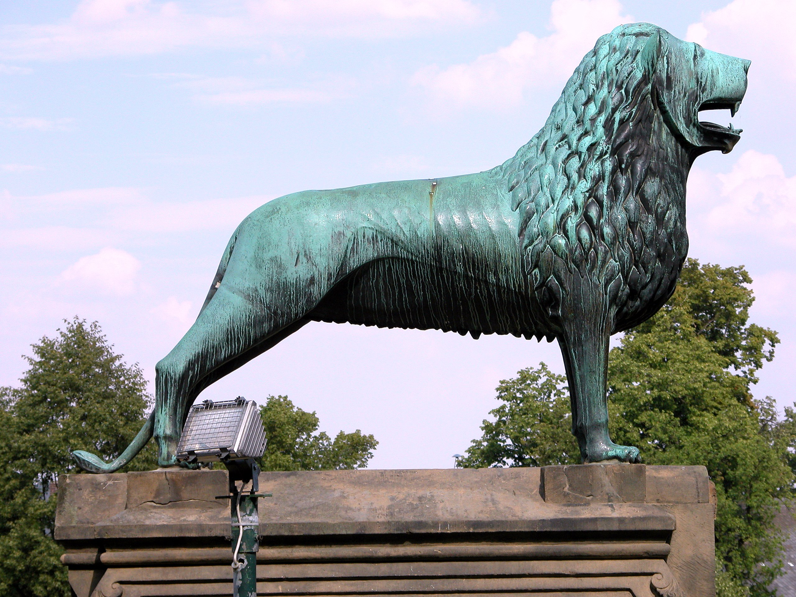 Goslar, Germany: Kaiserpfalz Goslar, one of the two copies of the Braunschweiger Löwe (Brunswick Lion).